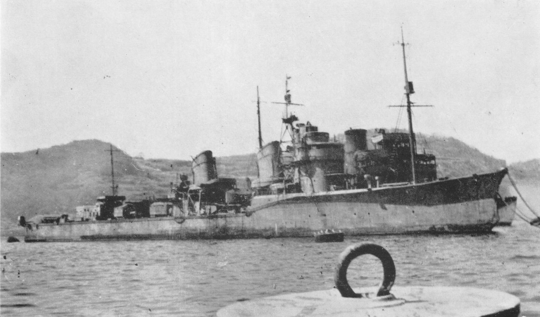 Fubuki class Destroyer "Ushio" in Port of Nagaura, Yokosuka.